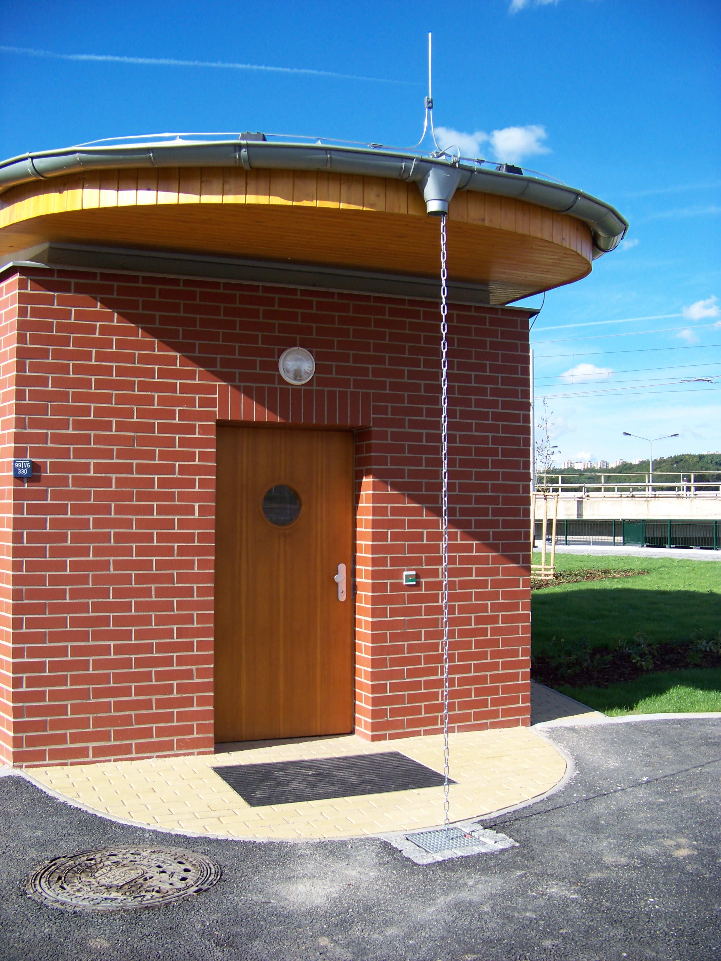 Prague-Dejvice and Bubeneč, the Czech Republic. The new tram loop Podbaba, a toilet for tram drivers and a rain gutter with a chain.